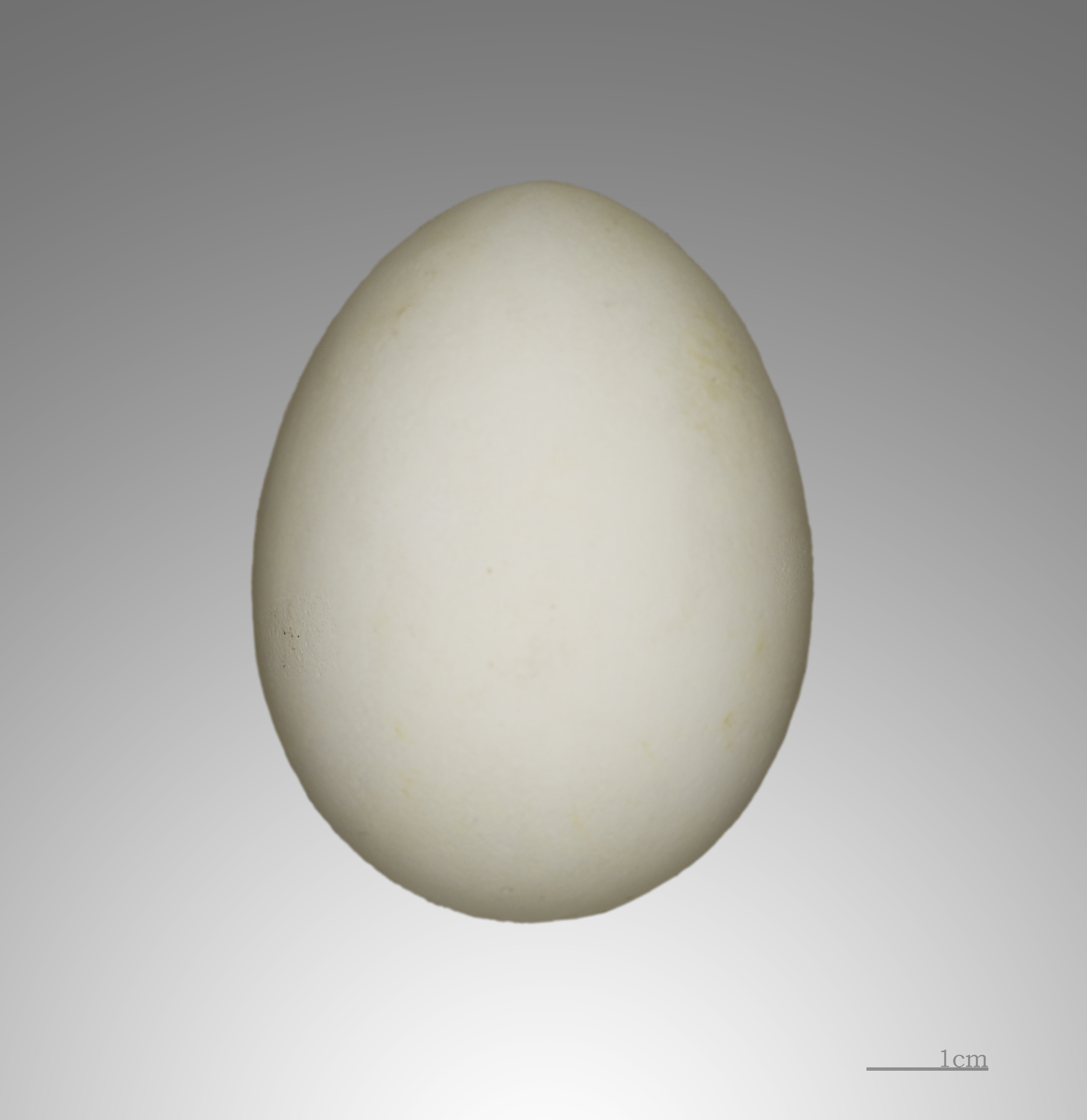 Egg of Snow Petrel. Collection of René de Naurois Jacques Perrin de Brichambaut.